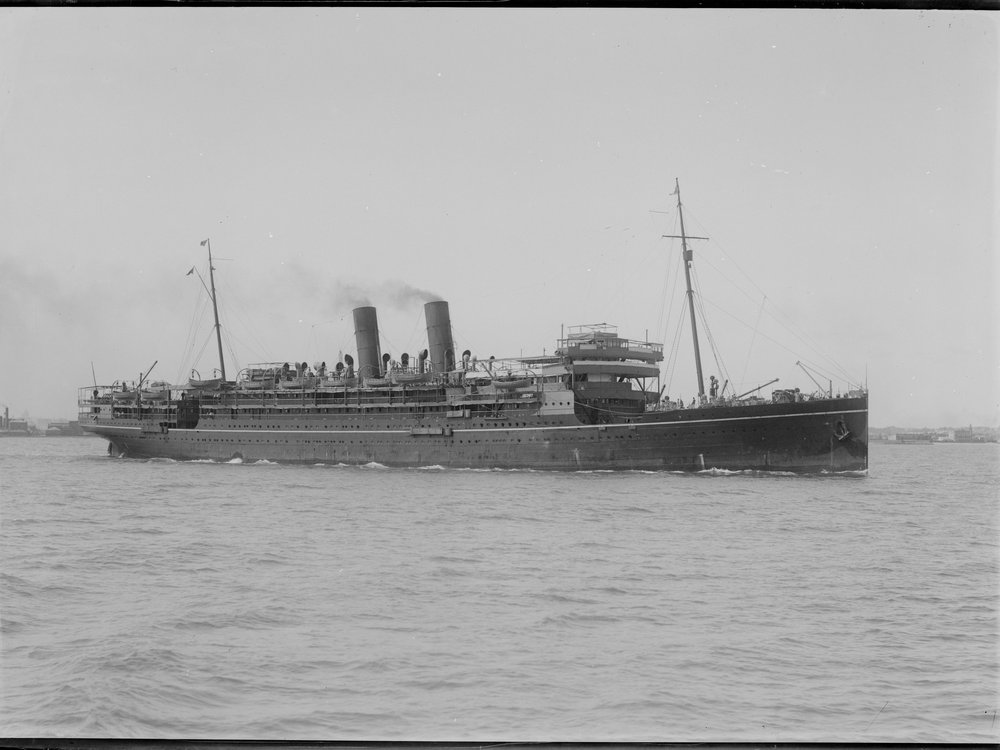 An image of the 20th century armed merchant cruiser HMS Mantua.